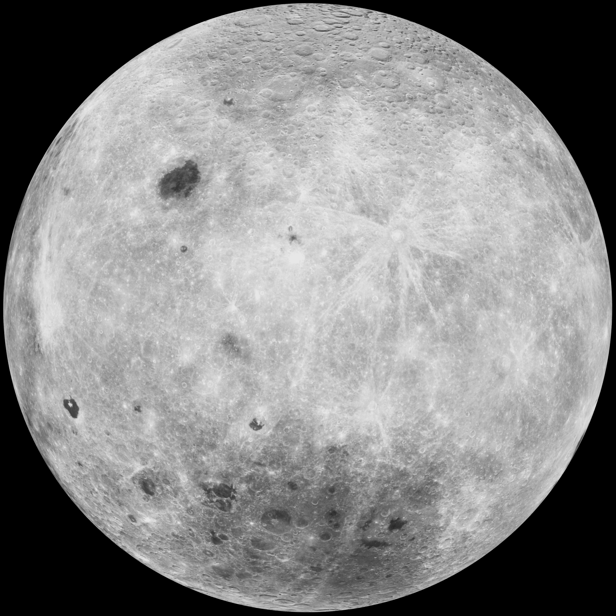 A virtual view of the Moon showing Clementine data. This image shows the far side of the Moon.